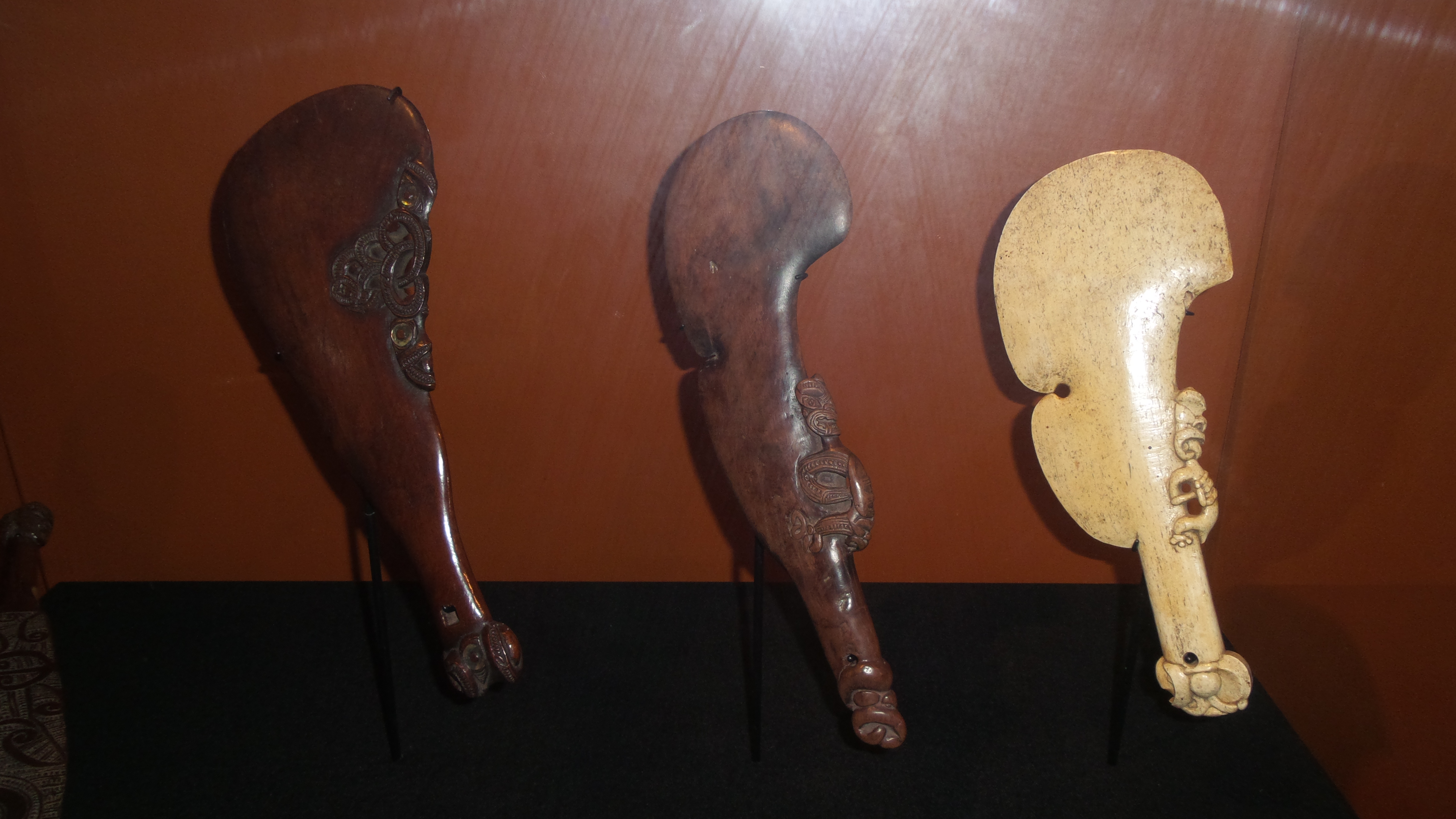 Three wahaika (hand weapon), two made from wood, and the one on the right made from whalebone. Photographed in Te Papa, Museum of New Zealand in Wellington.